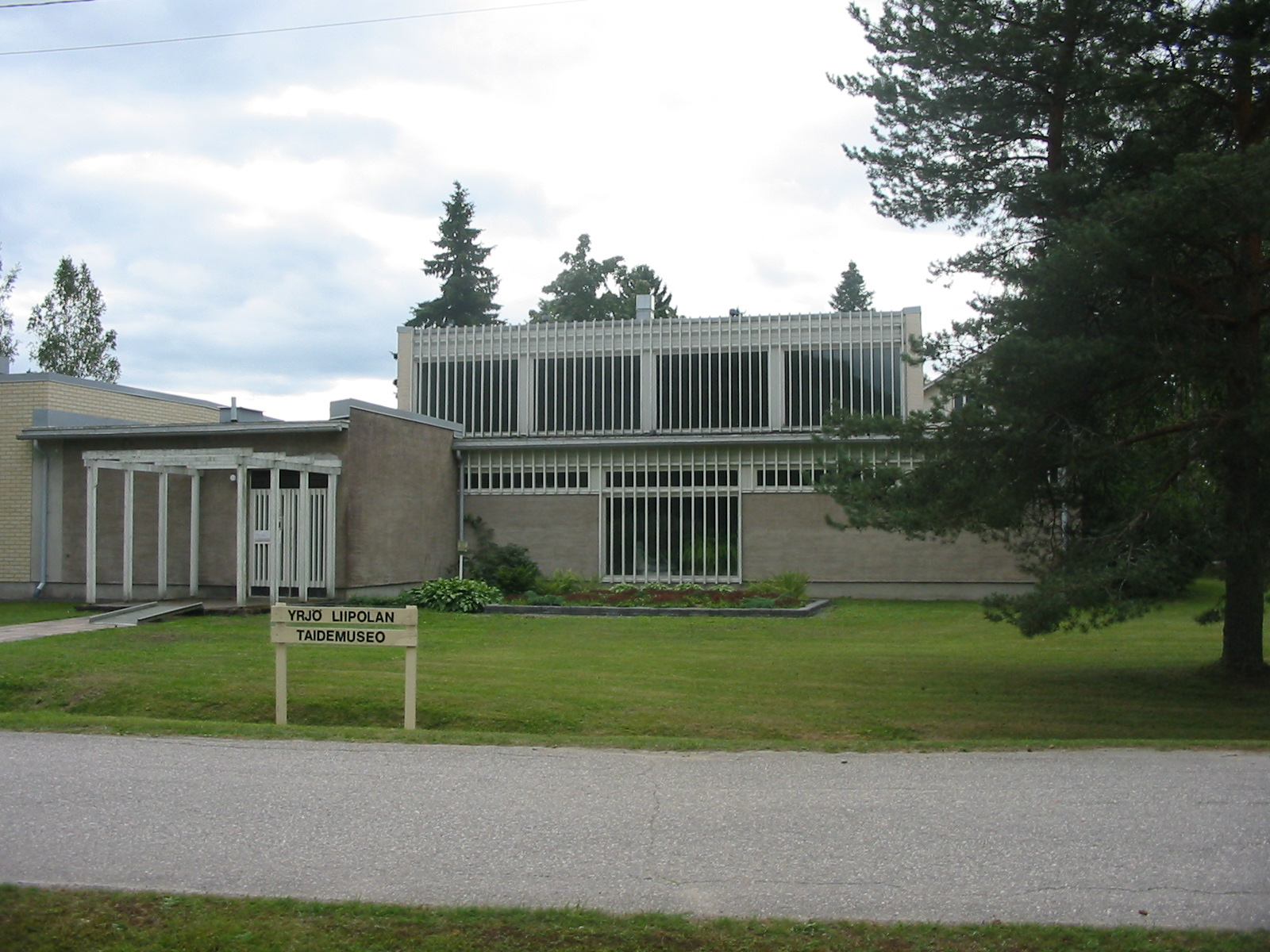 Yrjö Liipola Art Museum in Koski Tl, Finland